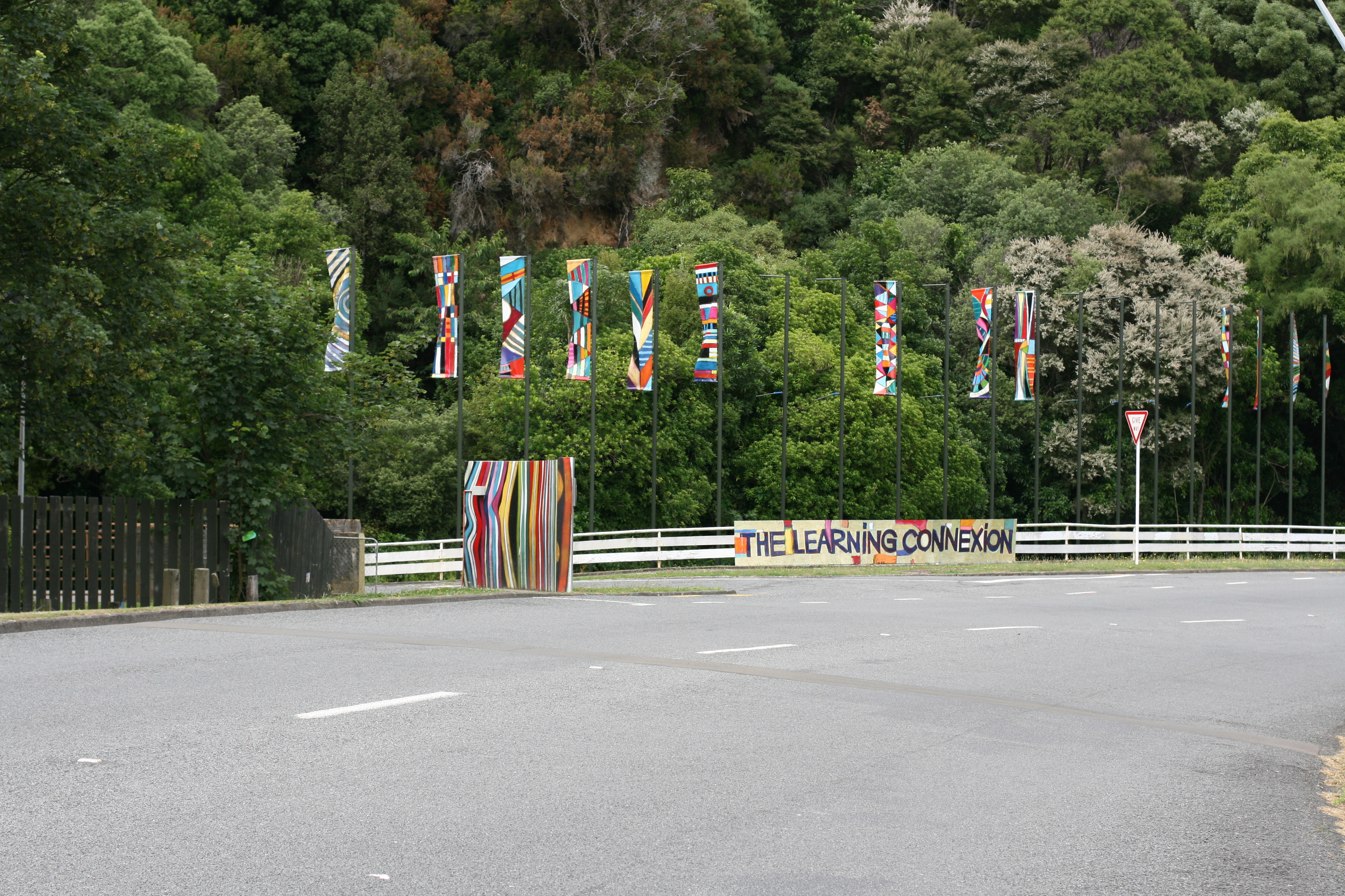 The entranceway to the The Learning Connection campus from Eastern Hutt Road in Lower Hutt